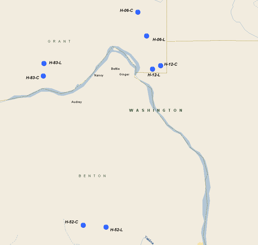 Hanford Defense Area Nike Missile Sites